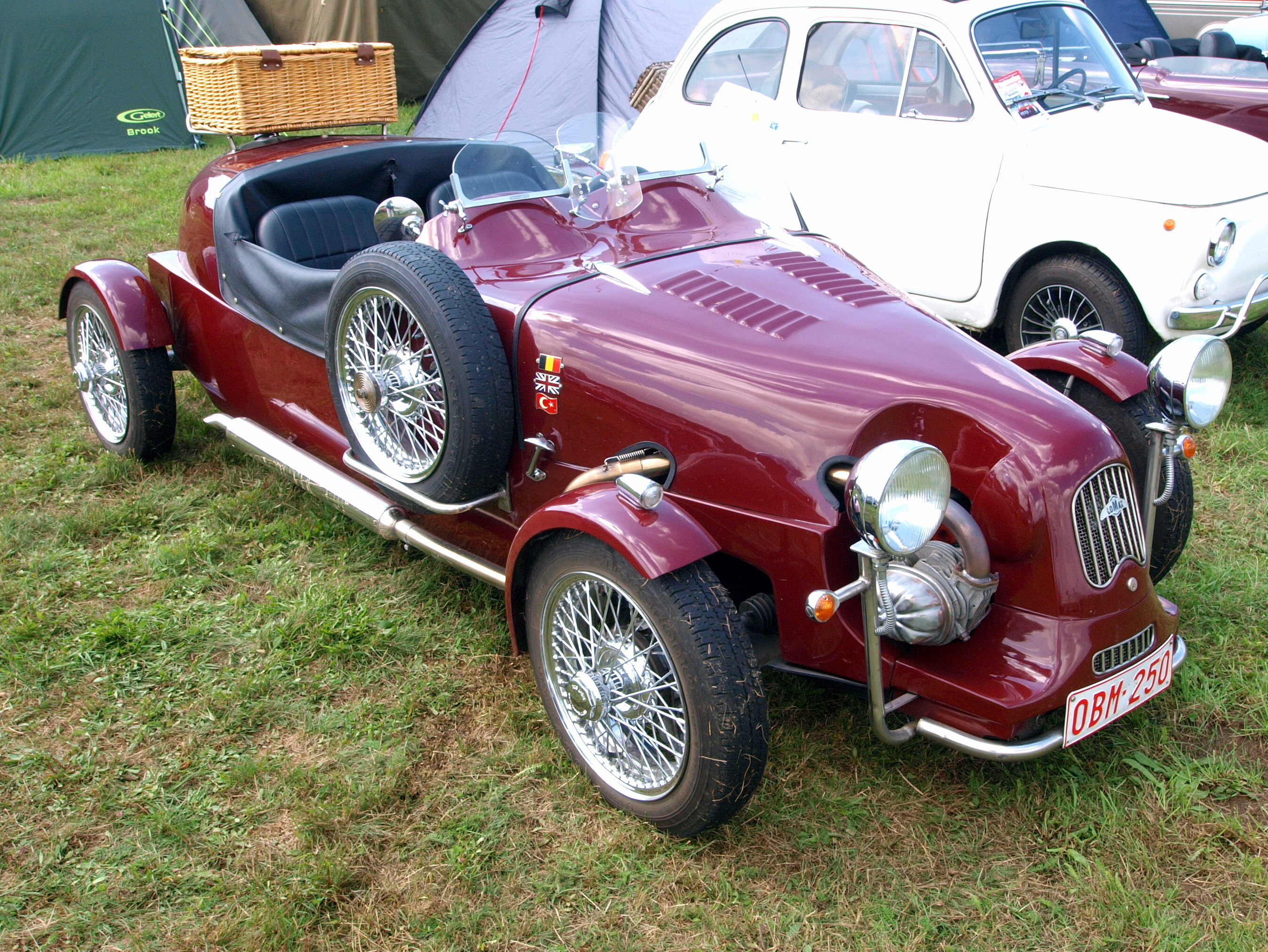 Photographed at The International Oldtimer Fly and Drive In 2010, Schaffen-Diest, Belgium.